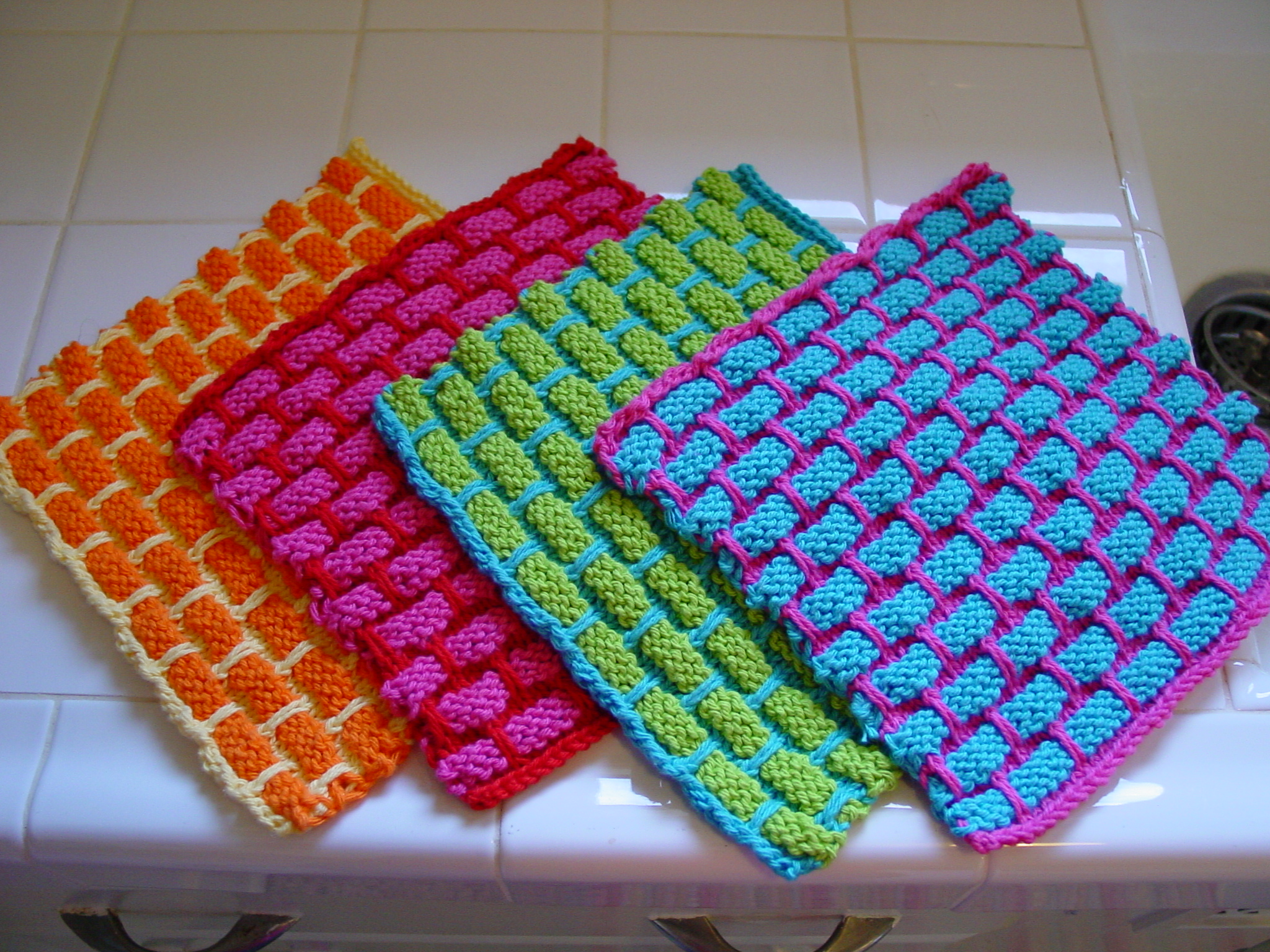 Here are four colorful dishrags I knitted. The "Warshrag" pattern came from Mason-Dixon Knitting.